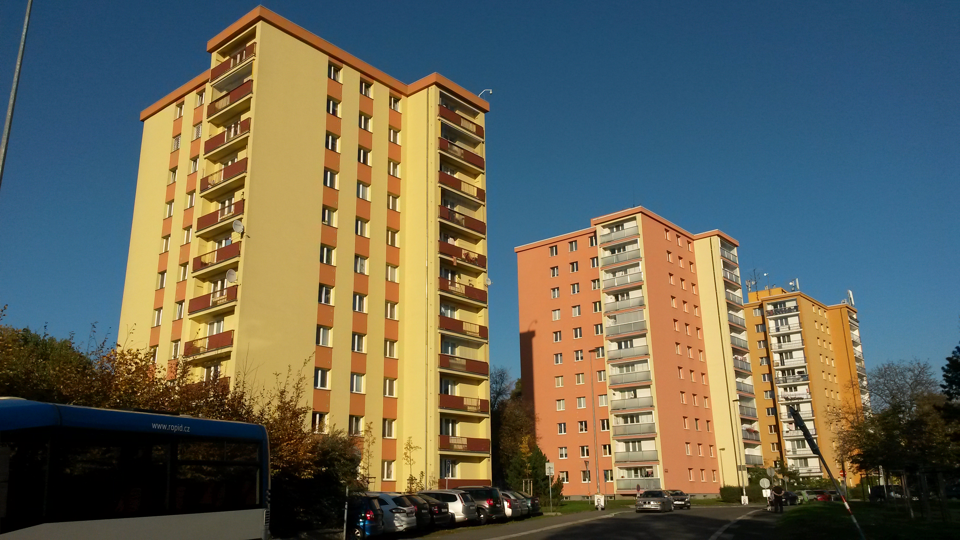 Klánovická Street in Prague-Hloubětín